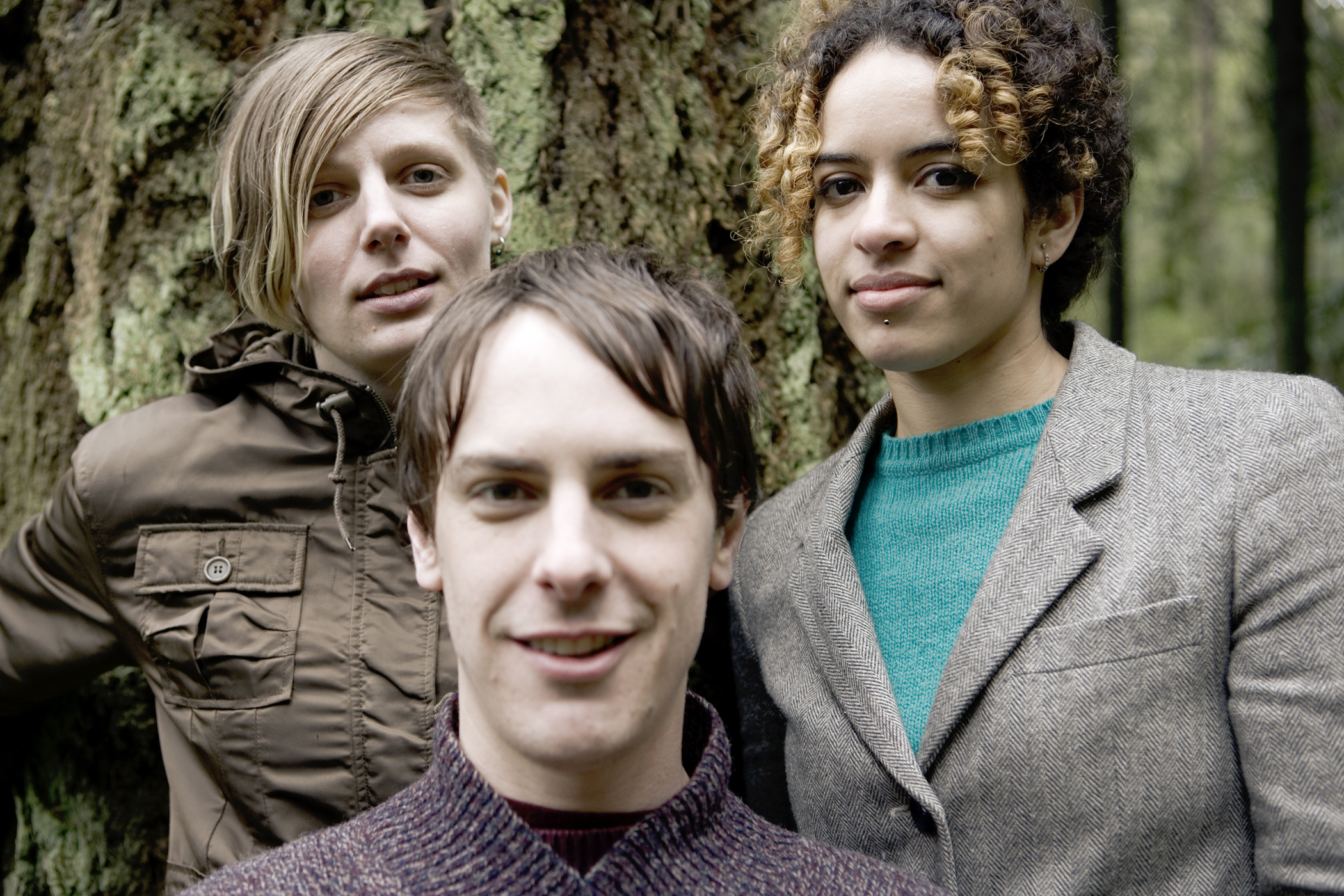 The Thermals, a band from Portland